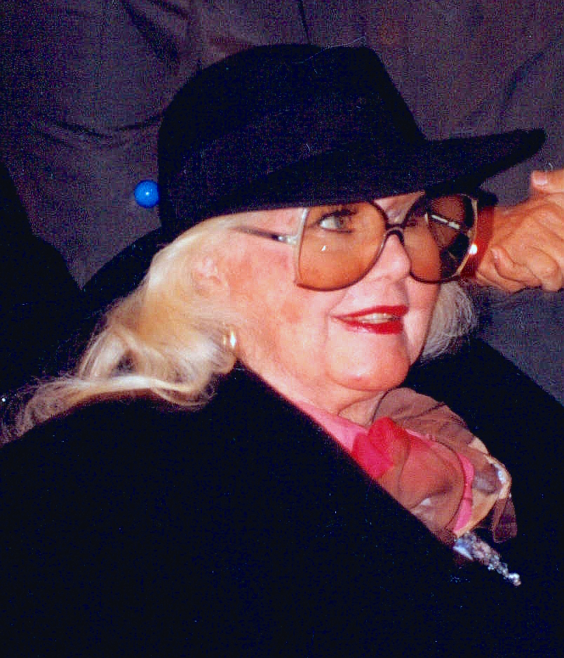 From 1993 Baltimore M.D. Senator theater